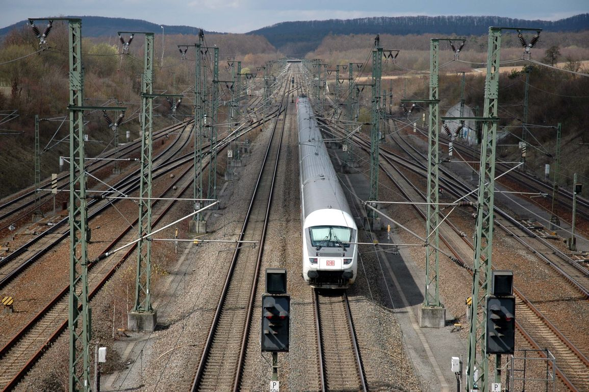 DB AG InterCity train with cab car (Type Bimdzf at the end with direction Mannheim on the high speed tracks Mannheim-Stuttgart heading through Vaihingen (Enz), train number IC 2068 (Dresden-Karlsruhe).